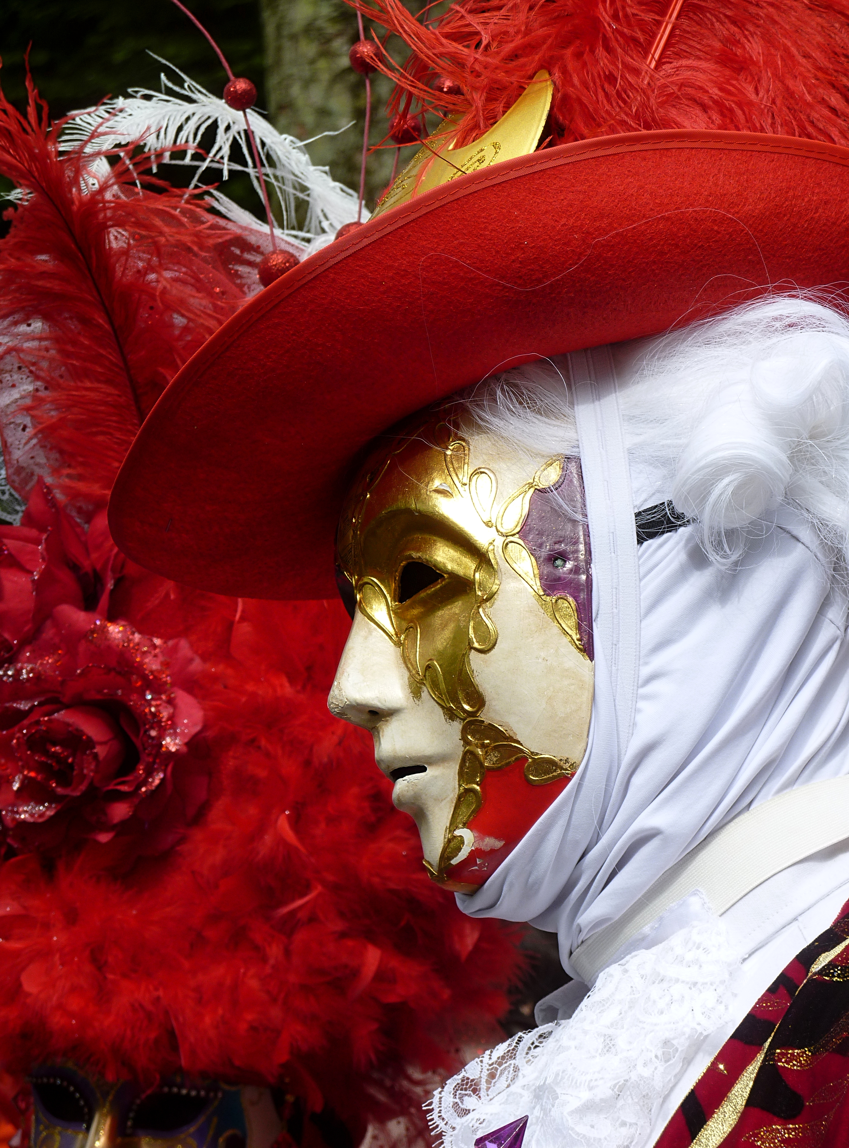 Character of the Venice carnival, picture taken in the municipal park of Mouscron, Belgium on the occasion of "Venice to Mouscron".